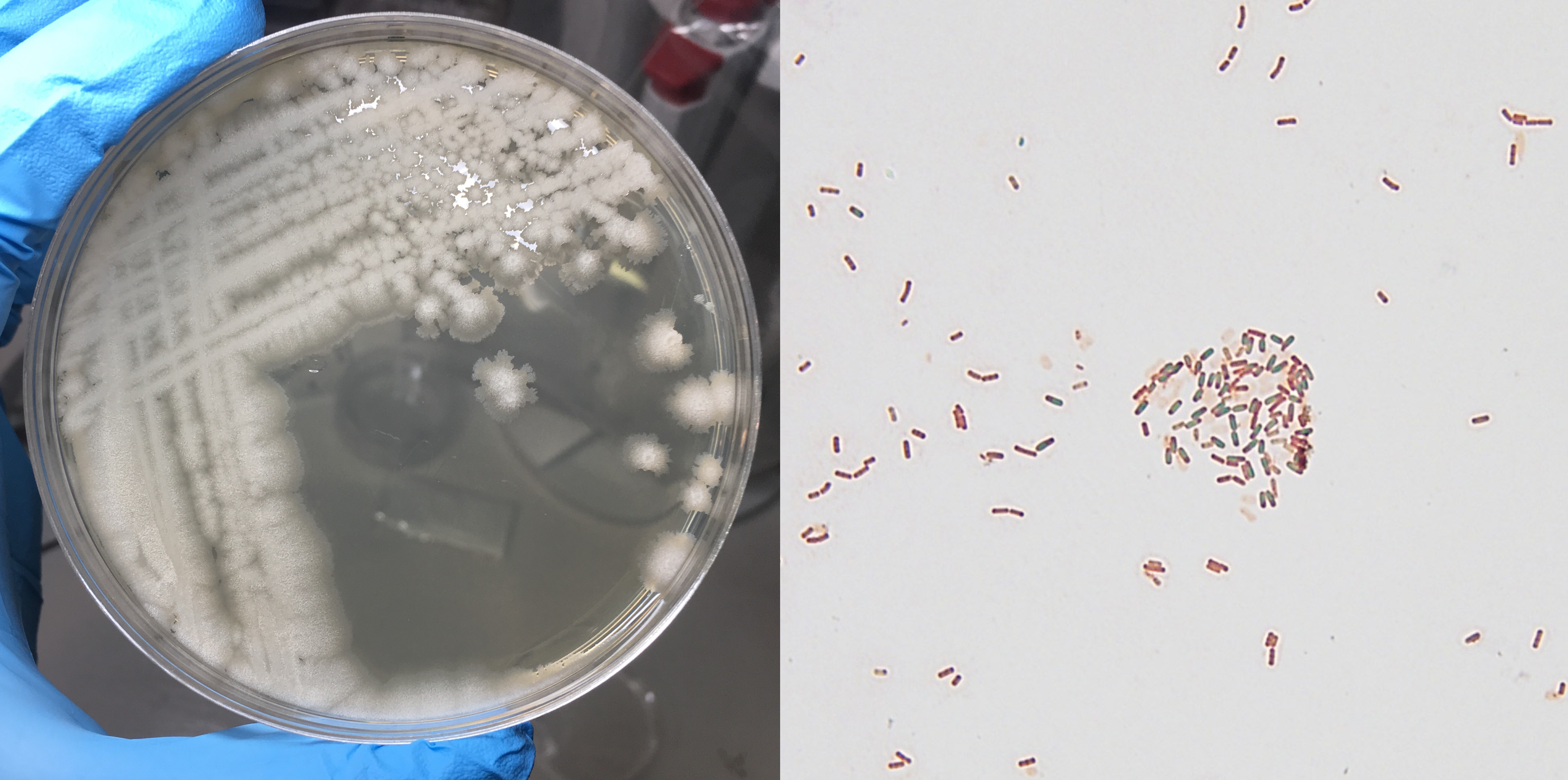 Colonies of B.subtilis Natto grown on a TSA plate, and microscopic image of the bacterias Schaeffer–Fulton stain, the endospores appear green. This bacterial culture is extracted from Commercial Natto products.